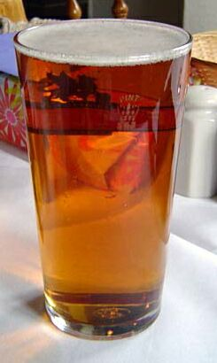 British Real Ale in a pub in Lingfield, Surrey, UK - A glass of real ale from an English pub.